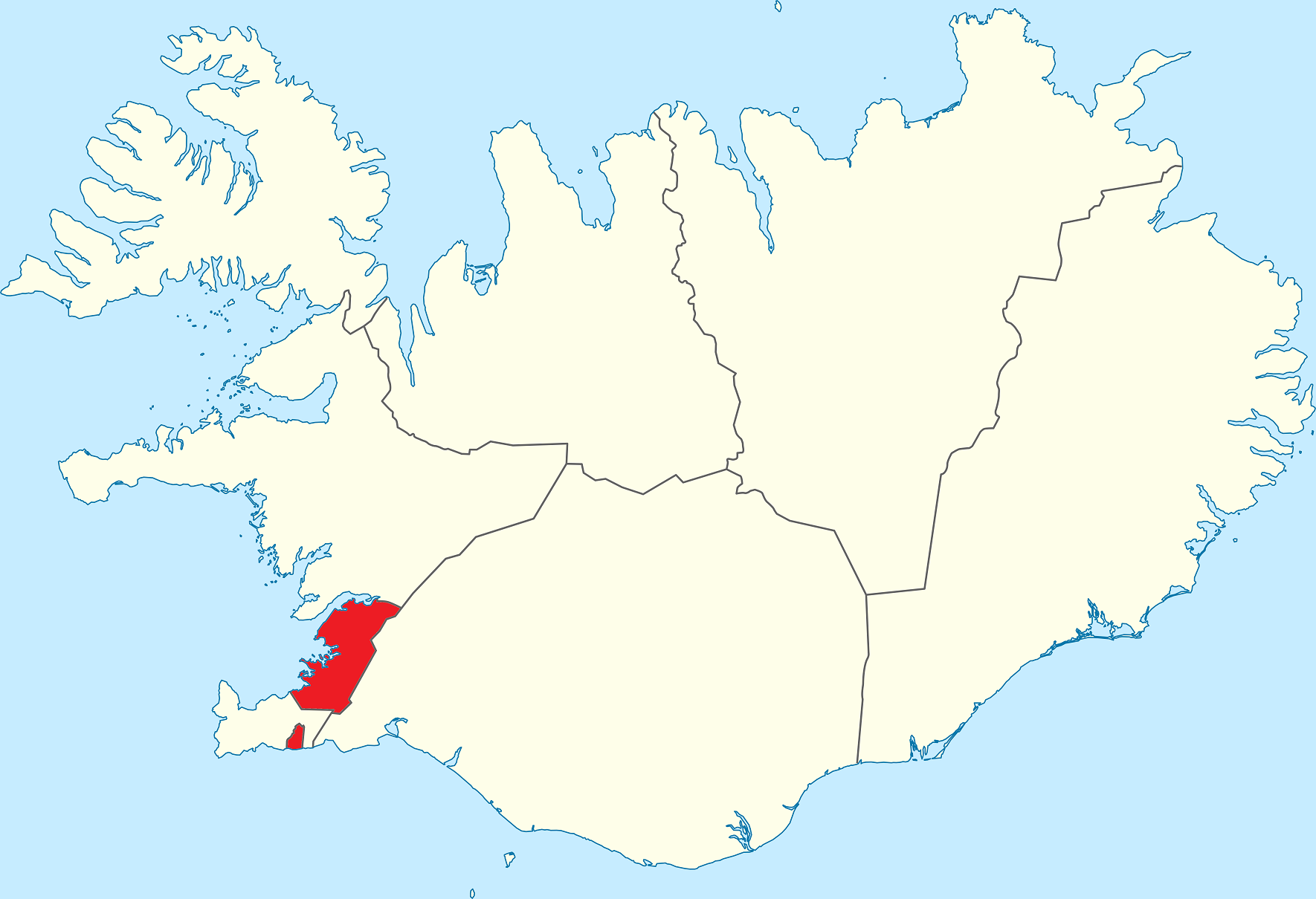 Region highlighted within Iceland as a whole.